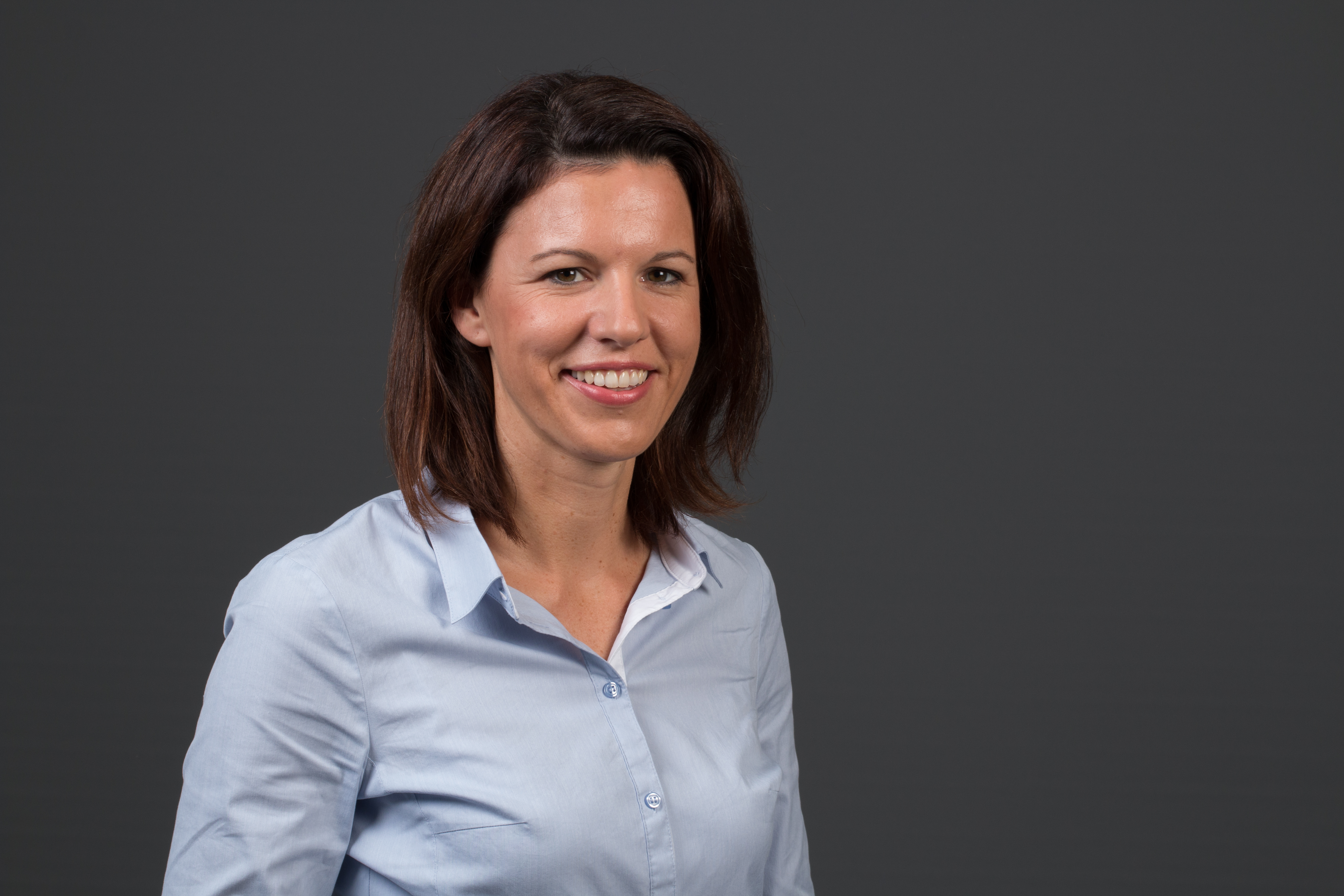 Katja Leikert MdB, CDU/CSU